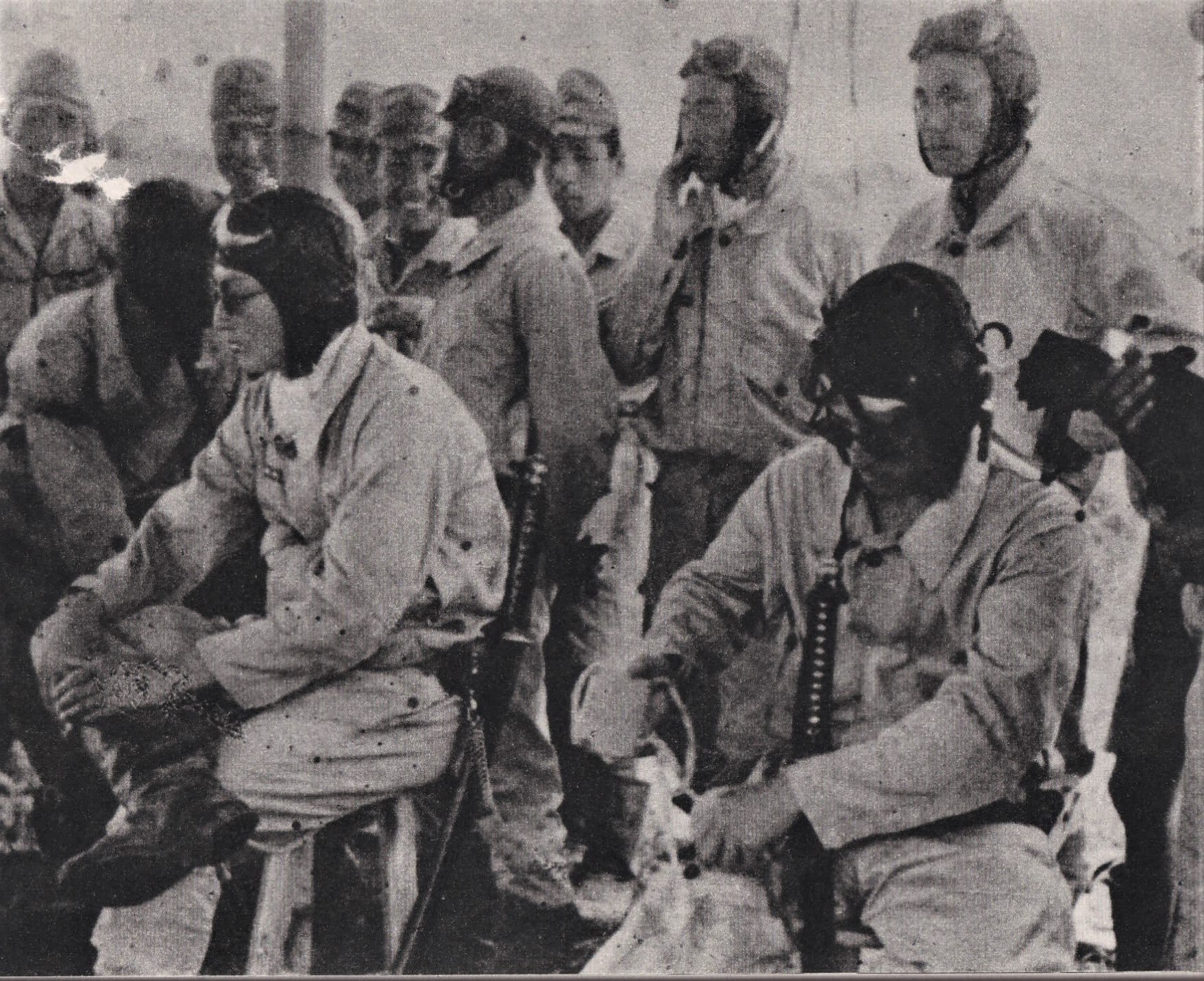 Captain Iwamoto and Vanda Corps pilot Arriving in the Philippines